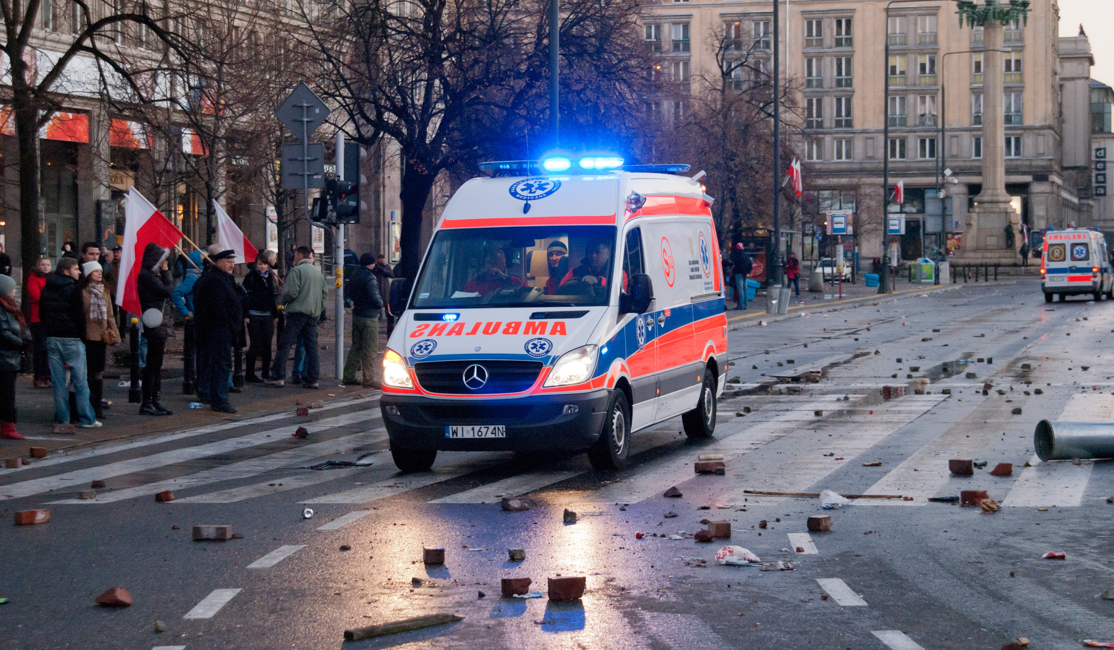 Independence March and ambulance on Constitution Place in Warsaw, March 11, 2011. On that day, "Polish riot police used batons, teargas and water cannon against thousands of right-wing demonstrators after Independence Day observances Friday turned into clashes in which police were attacked by leftist and right-wing marchers[.]" "[A]t least 29 people [were] taken to hospital and more than 200 detained[.]"